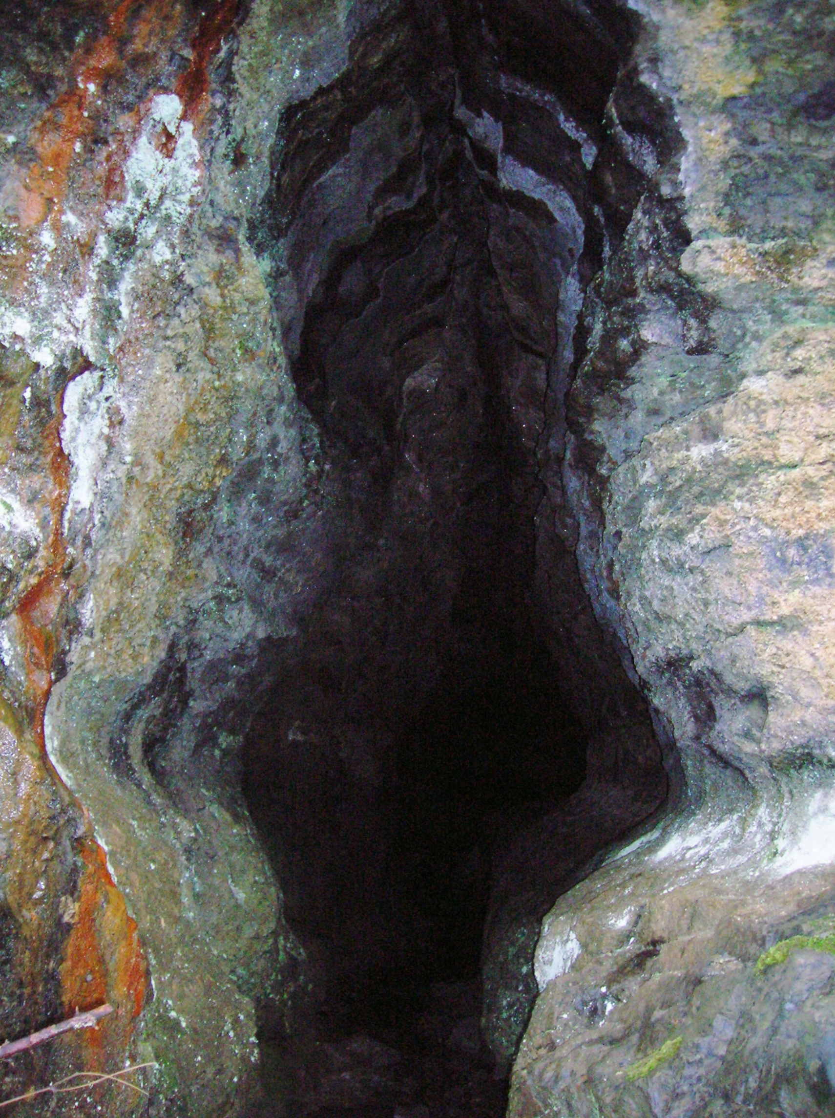 Cleeve Cove entrance, Dusk Water, North Ayrshire, Scotland